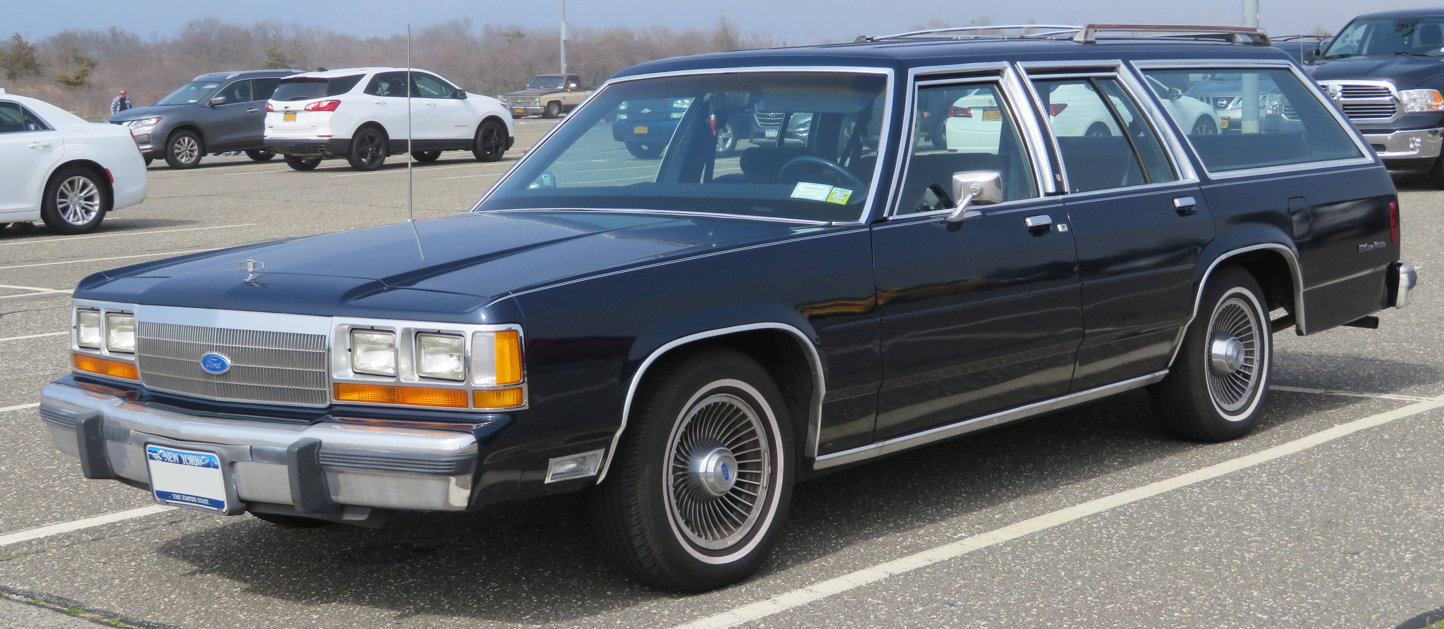 In Long Island, New York